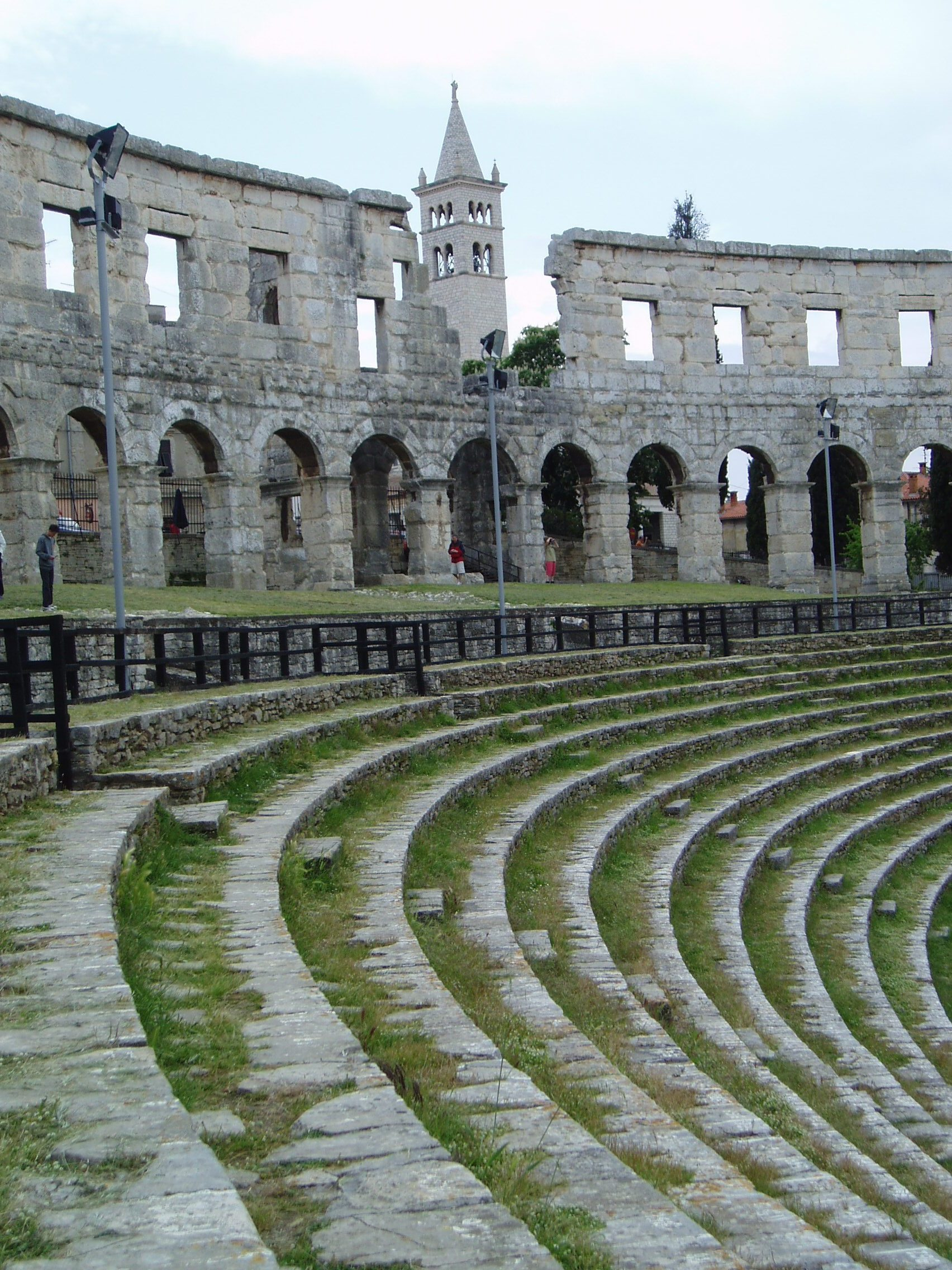 Inside part of the Ancient Roman amphitheatre in Pula, Istria region (Croatia).